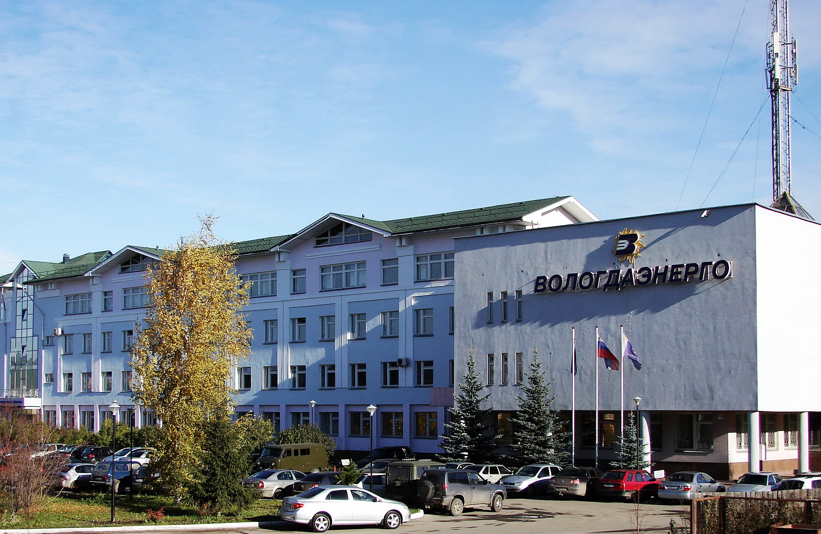 Russia, Vologda, «VologdaEnegro» company